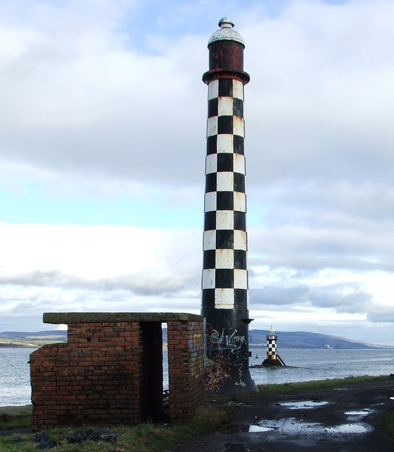 Lighthouses at Port Glasgow These lighthouses mark a bend in the navigable channel in the Clyde. As the name suggests, Port Glasgow was once the main port of Glasgow which is 20 miles up-river. The town turned to shipbuilding after the channel to Glasgow was opened in the 1880s. See 337674 for a closer view of The Perch in the background. Note also the WWII defence post.